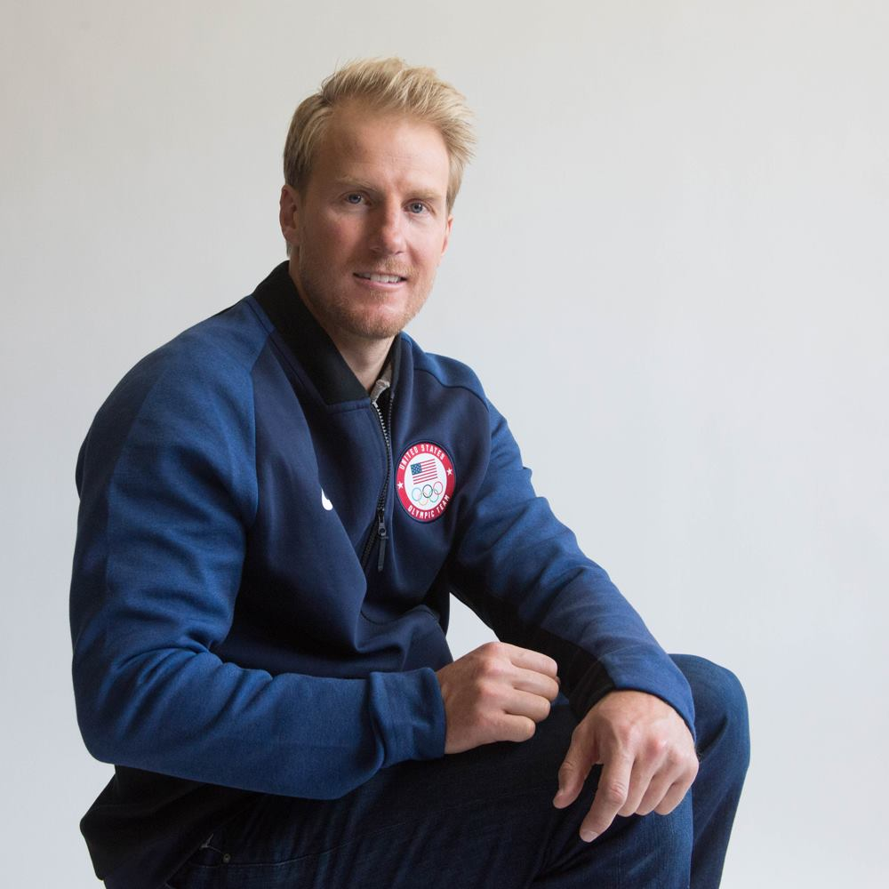 Ted Ligety